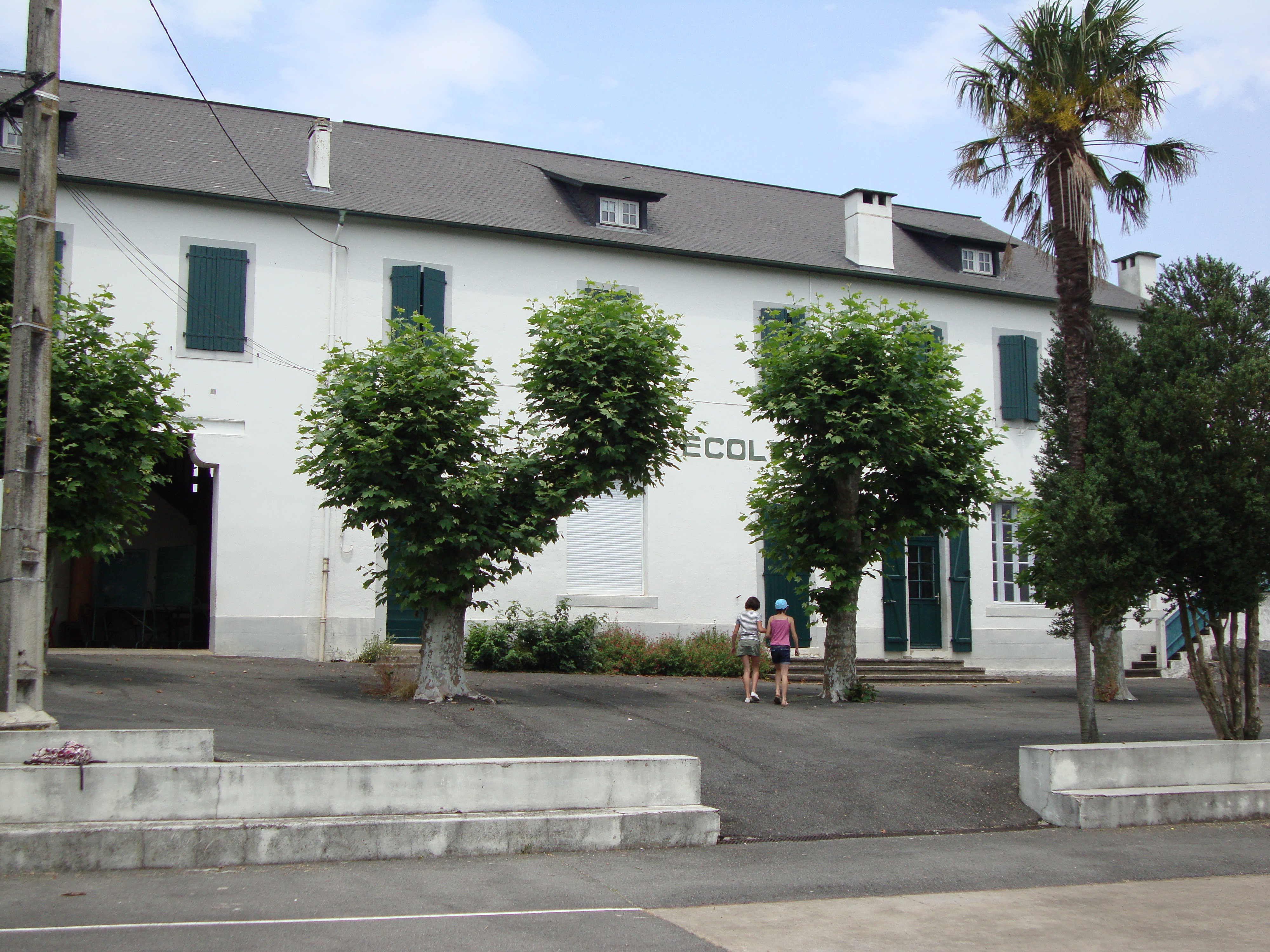 Musculdy (Pyr-Atl, Fr) school.